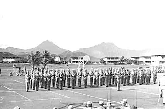 Original caption: "This is the joyous celebration welcoming the 3rd Battalion 3rd Marines when we first came to Hawaii 1953."